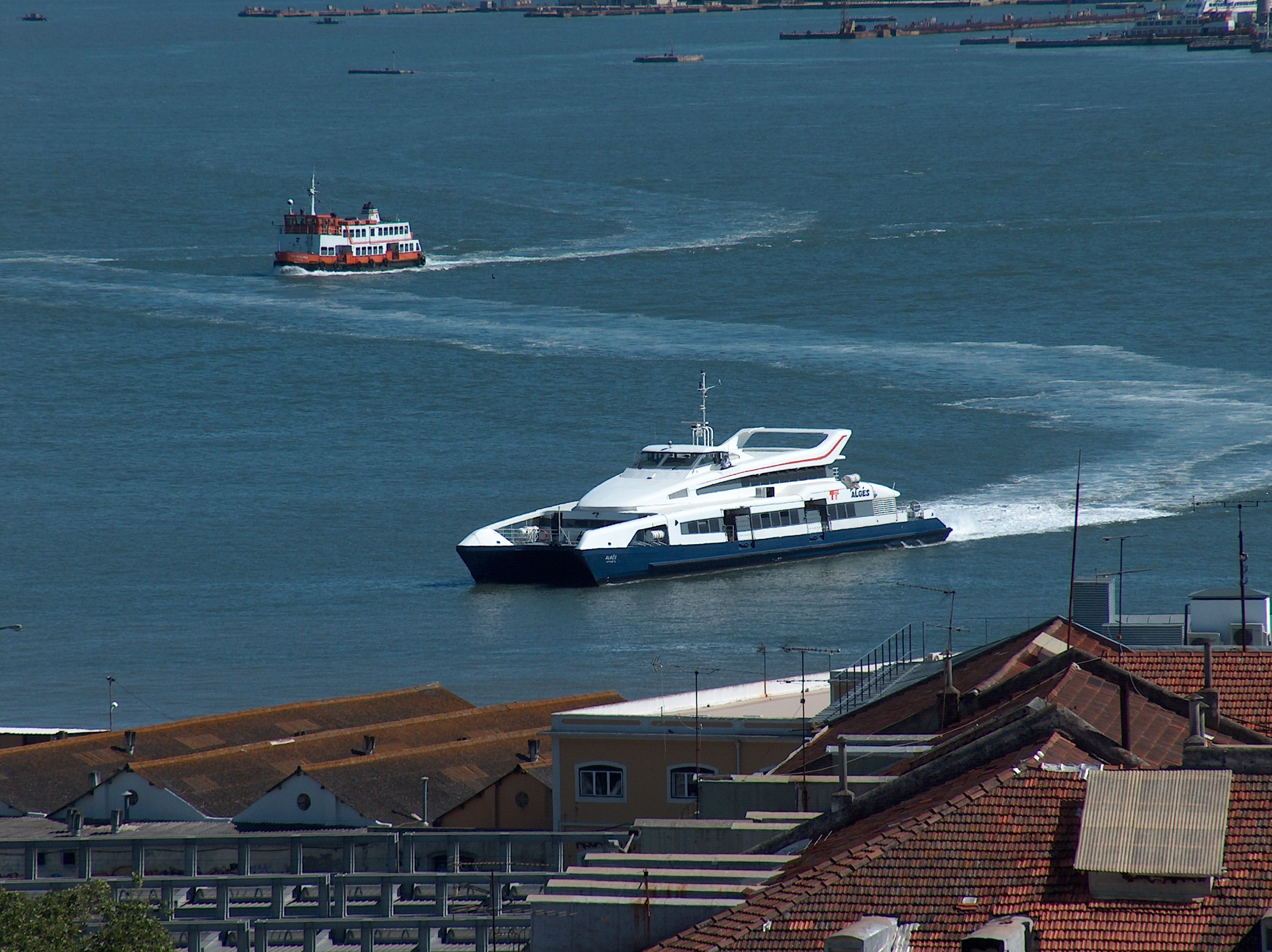 "Cacilheiros" (boats) in the Tagus River (Lisboa).